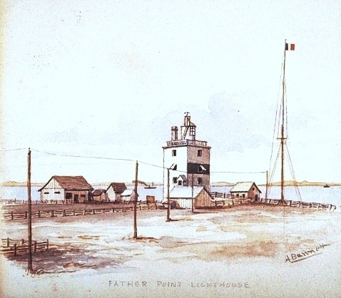 Painting, Father Point Lighthouse, 1885-1889, Henry Richard S. Bunnett, Watercolour on paper, 22 x 24 cm